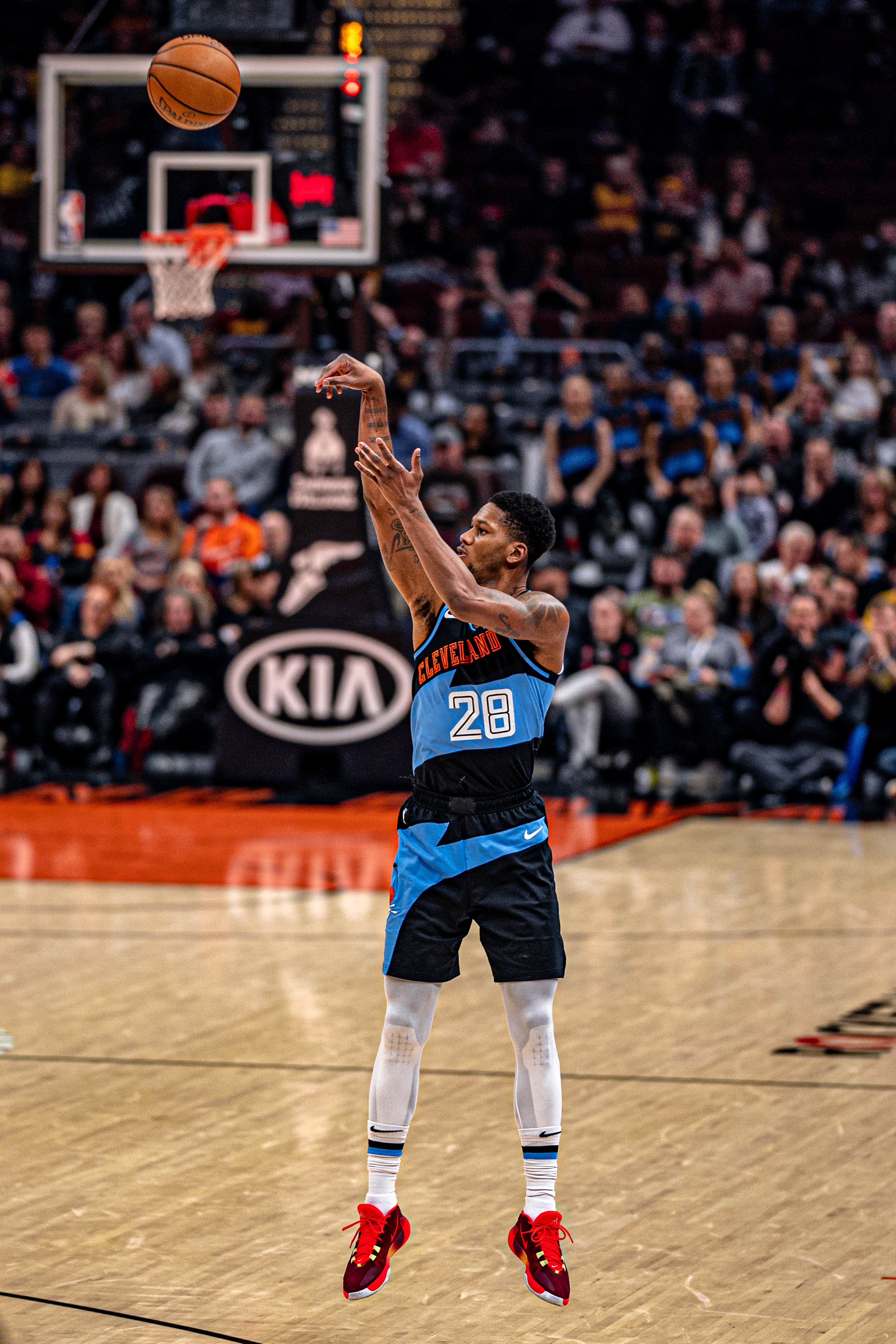 Alfonzo McKinnie takes a jump shot for the Cleveland Cavaliers during a 2019 game at Rocket Mortgage FieldHouse in Cleveland.